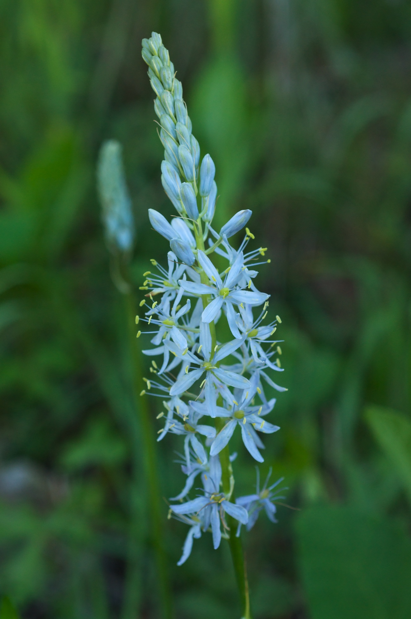 Camassia scilloides — common name: Atlantic camas. Photographed along AR 127 just east of Hobbs State Park − Conservation Management Area, Ozark Mountains, northwestern Arkansas. Species from eastern North America